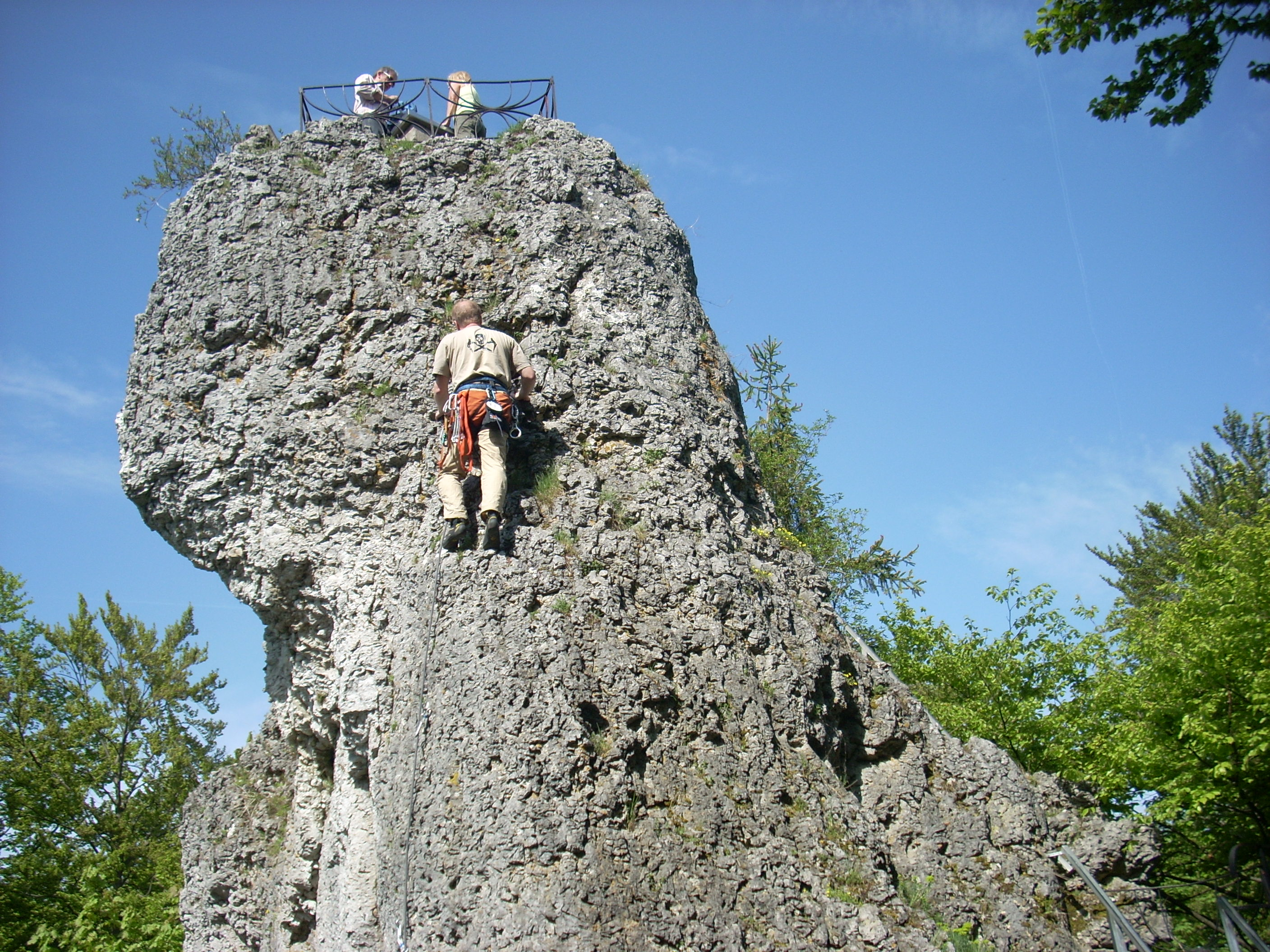 Rock "Signalstein" near by Egloffstein